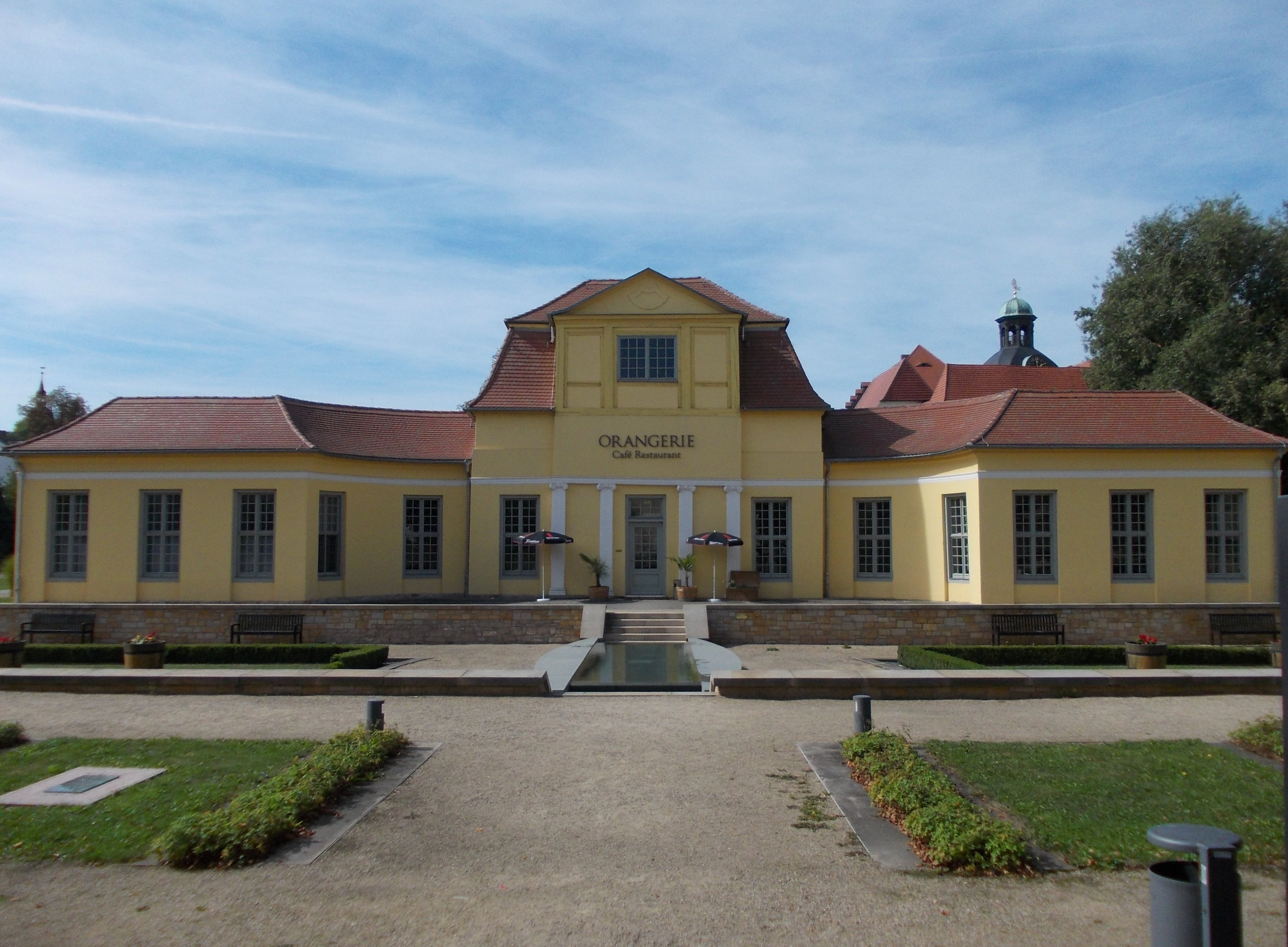 Orangery of Moritzburg Castle in Zeitz (district of Burgenlandkreis, Saxony-Anhalt)